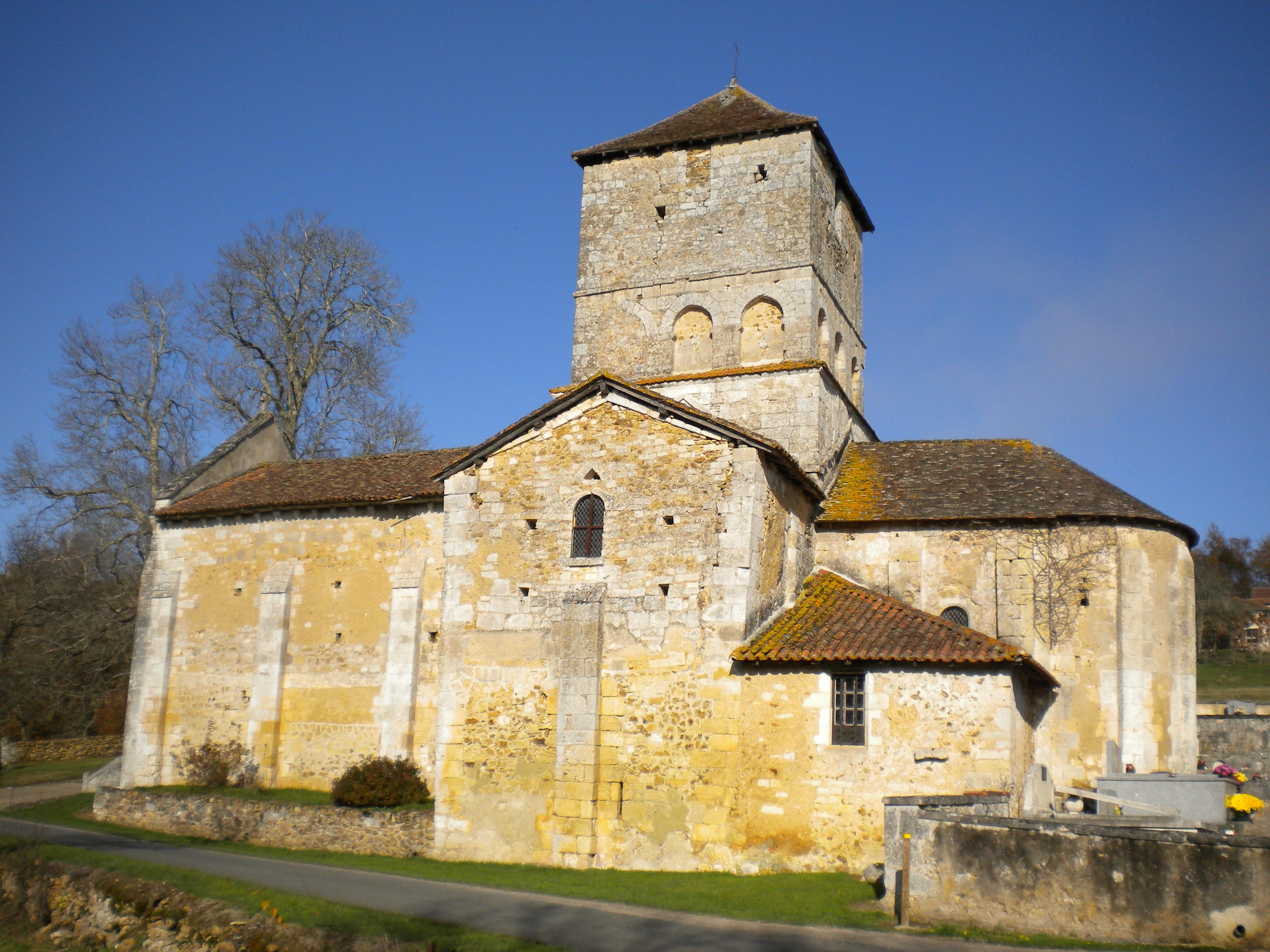 The church of Saint-Front-sur-Nizonne in the Dordogne, France.